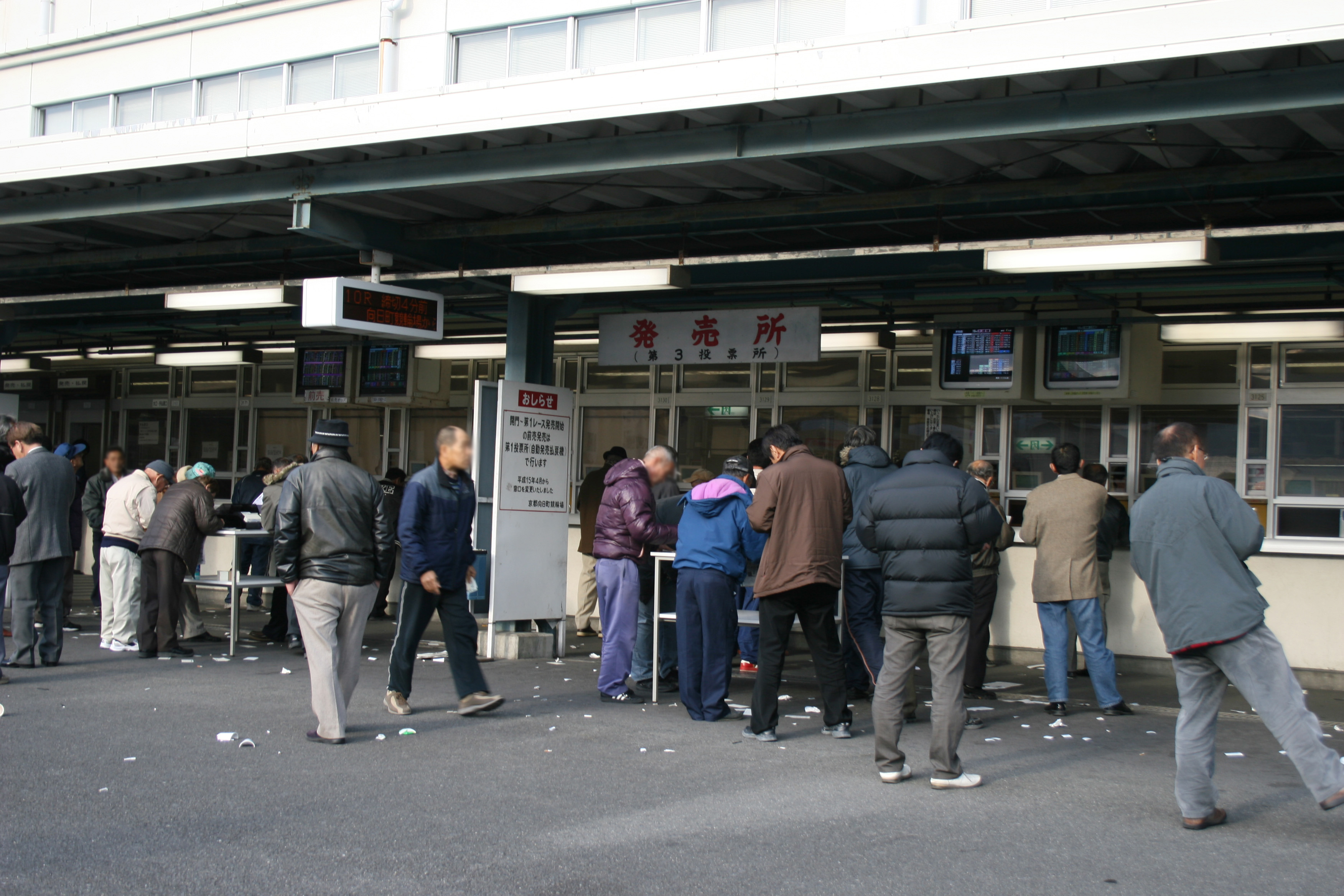 Betting windows of Kyoto Mukomachi Velodrome, Muko, Kyoto, Japan